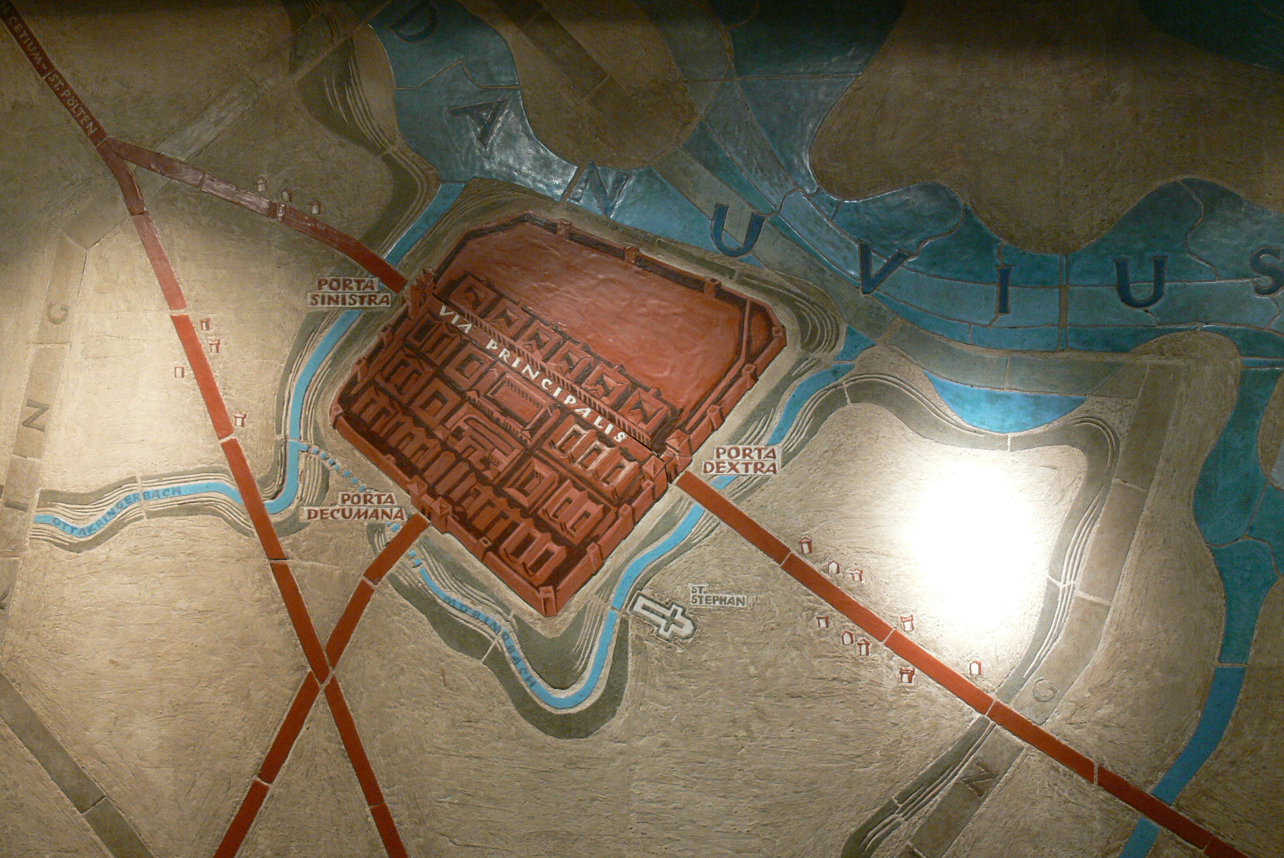 Roman Museum, Vienna. Plan of Ancient Roman Vindobona.